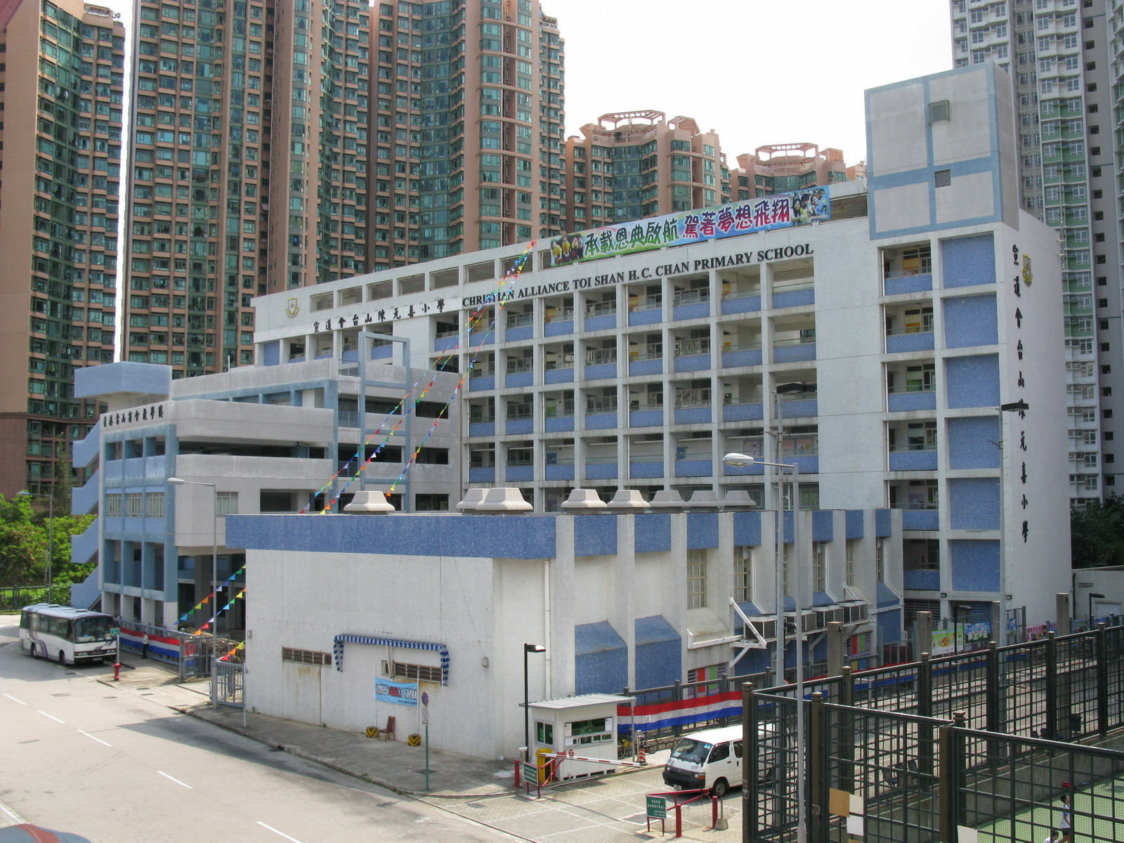 Christian Alliance Toi Shan H C Chan Primary School